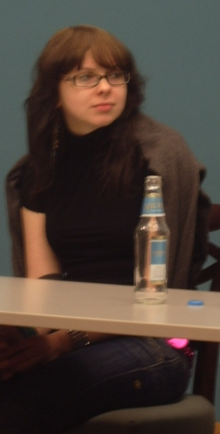 Young Estonian writer Mare Sabolotny